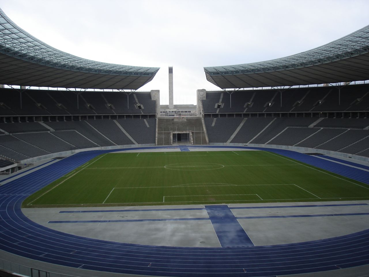 The Berlin Olympic Stadium in January 2007